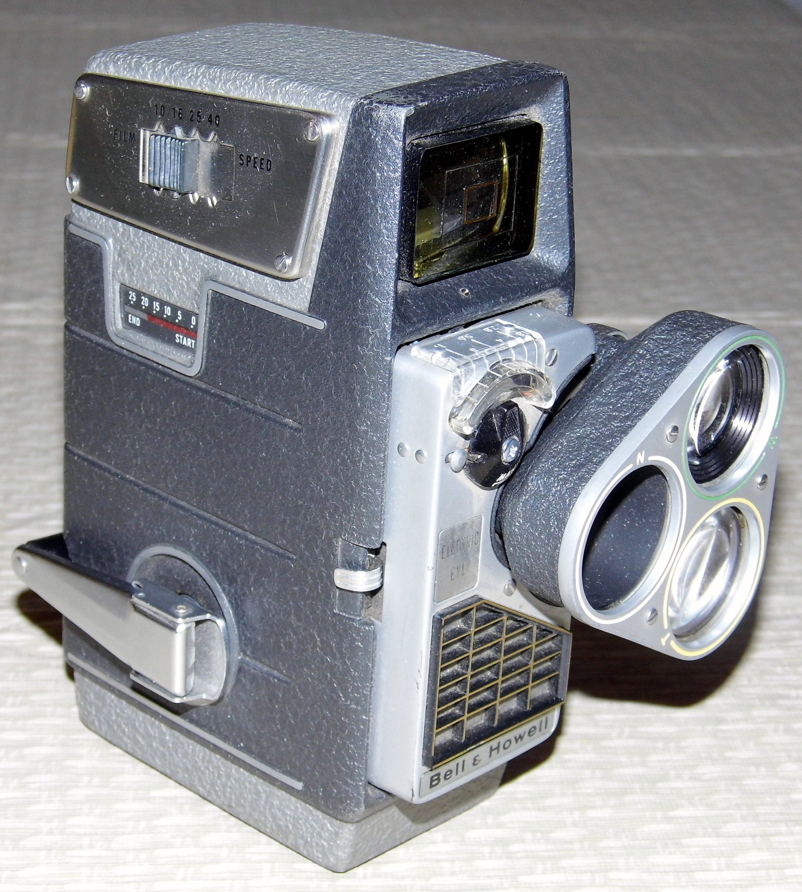 Vintage Bell & Howell 8mm Movie Camera With Electric Eye